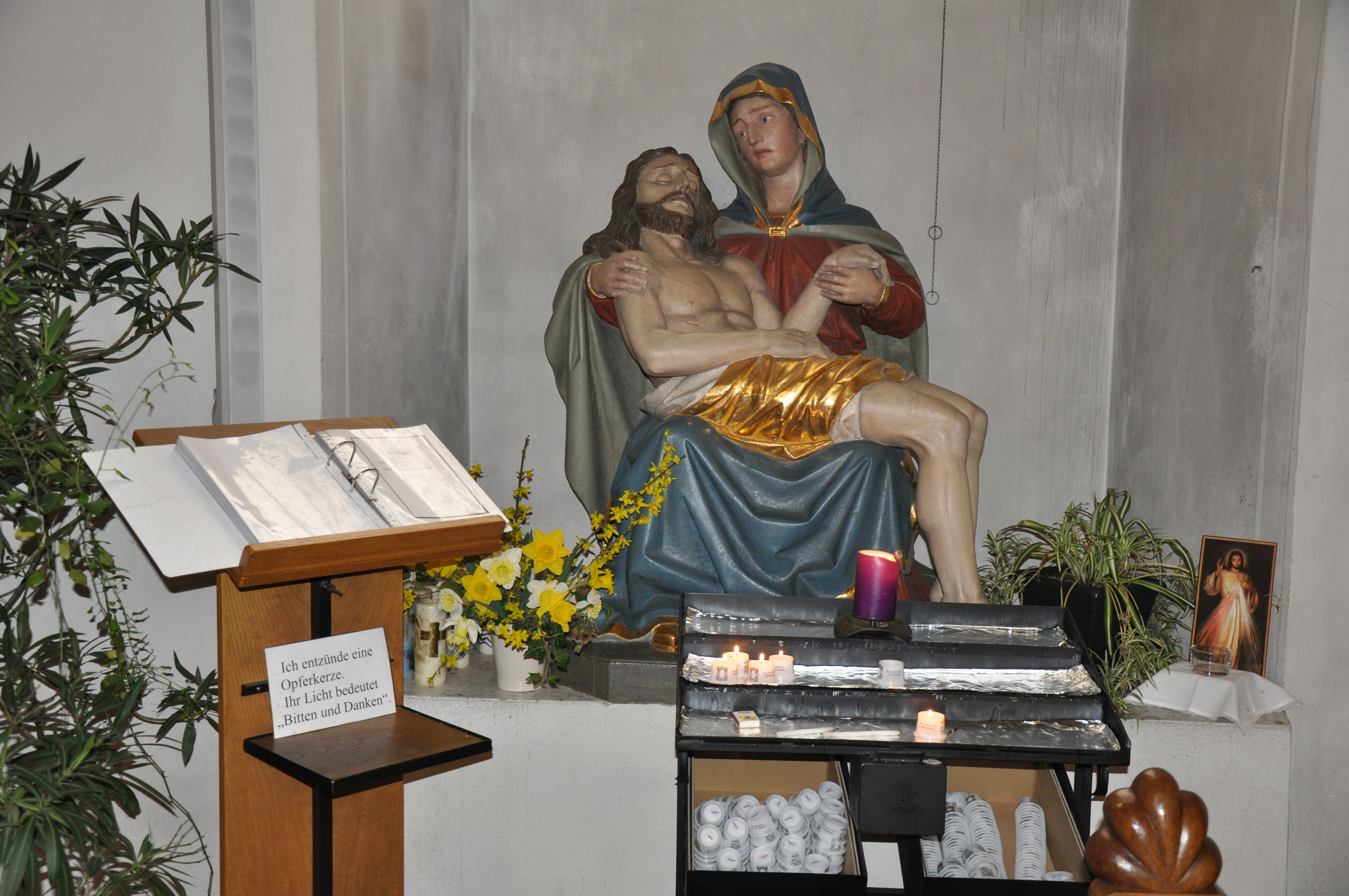 Laurentiuskirche (Dirmstein) Dirmstein